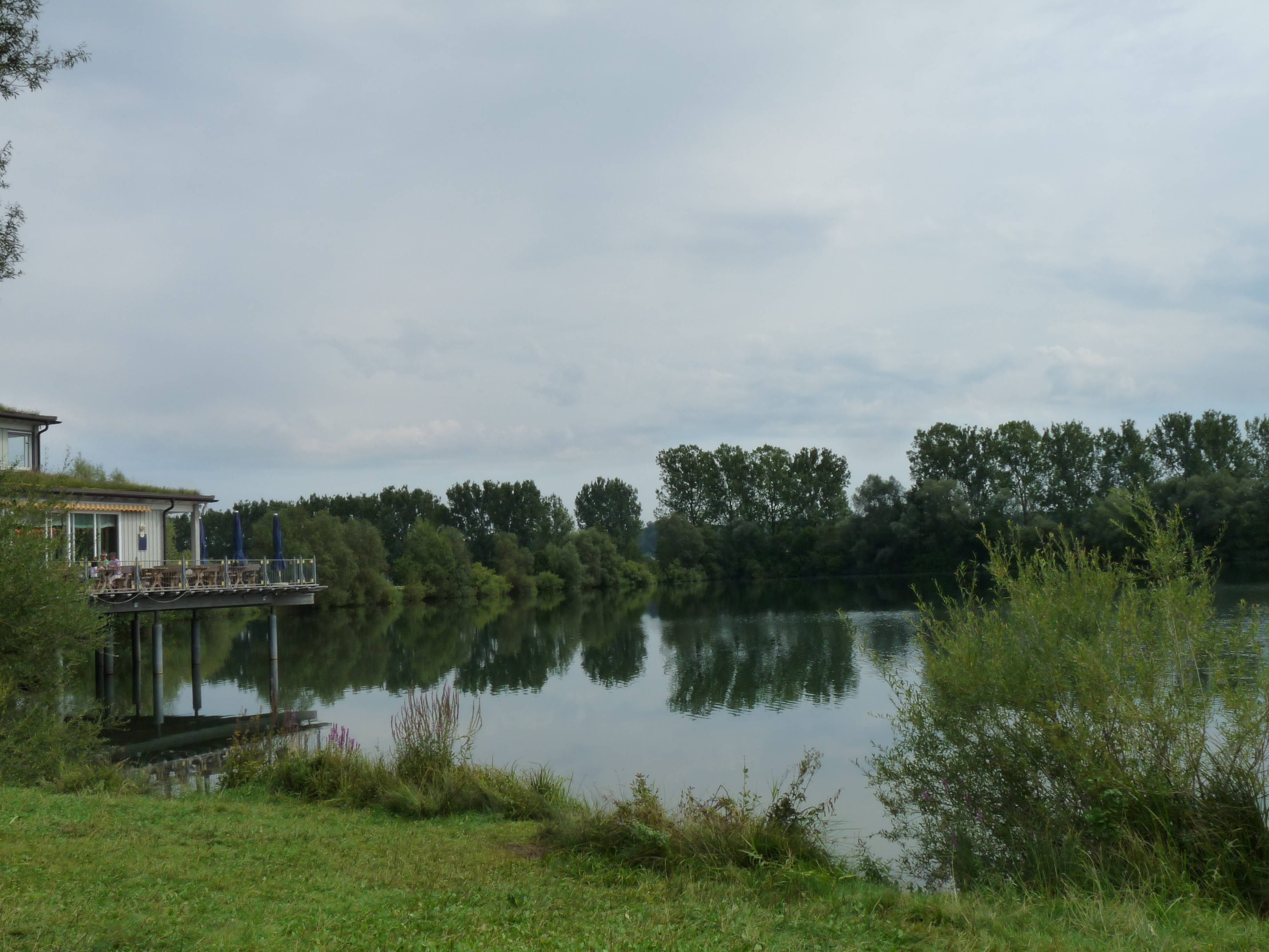 Lake Zielfingen near between Zielfingen and Krauchenwies, Germany